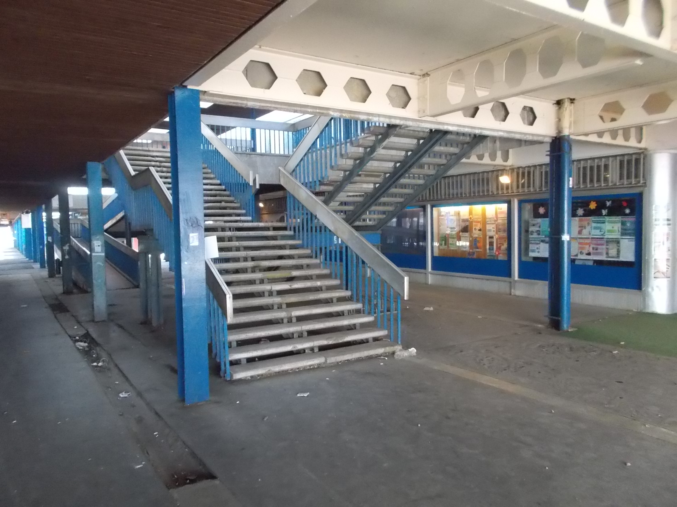 Tétényi út business/shopping? center and market stairs. - Etele út, Kelenföld neighborhood, Újbuda.